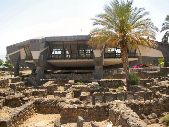 Catholic Church over the house of St. Peter in Kapernaum, Israel.